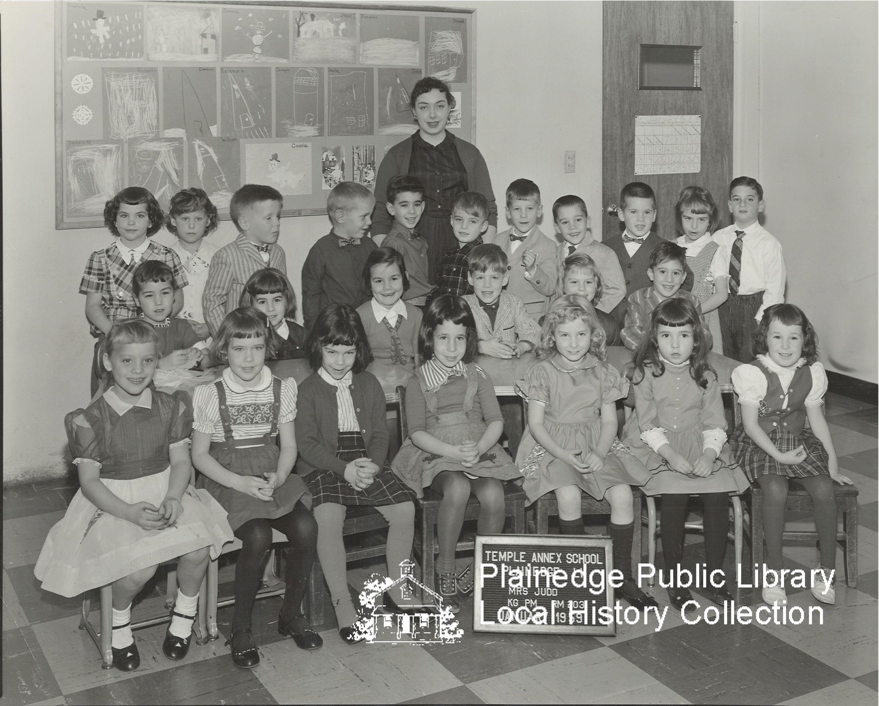 Mrs Judd's kindergarten class on January 1959 at the Temple Annex School Plainedge LI.